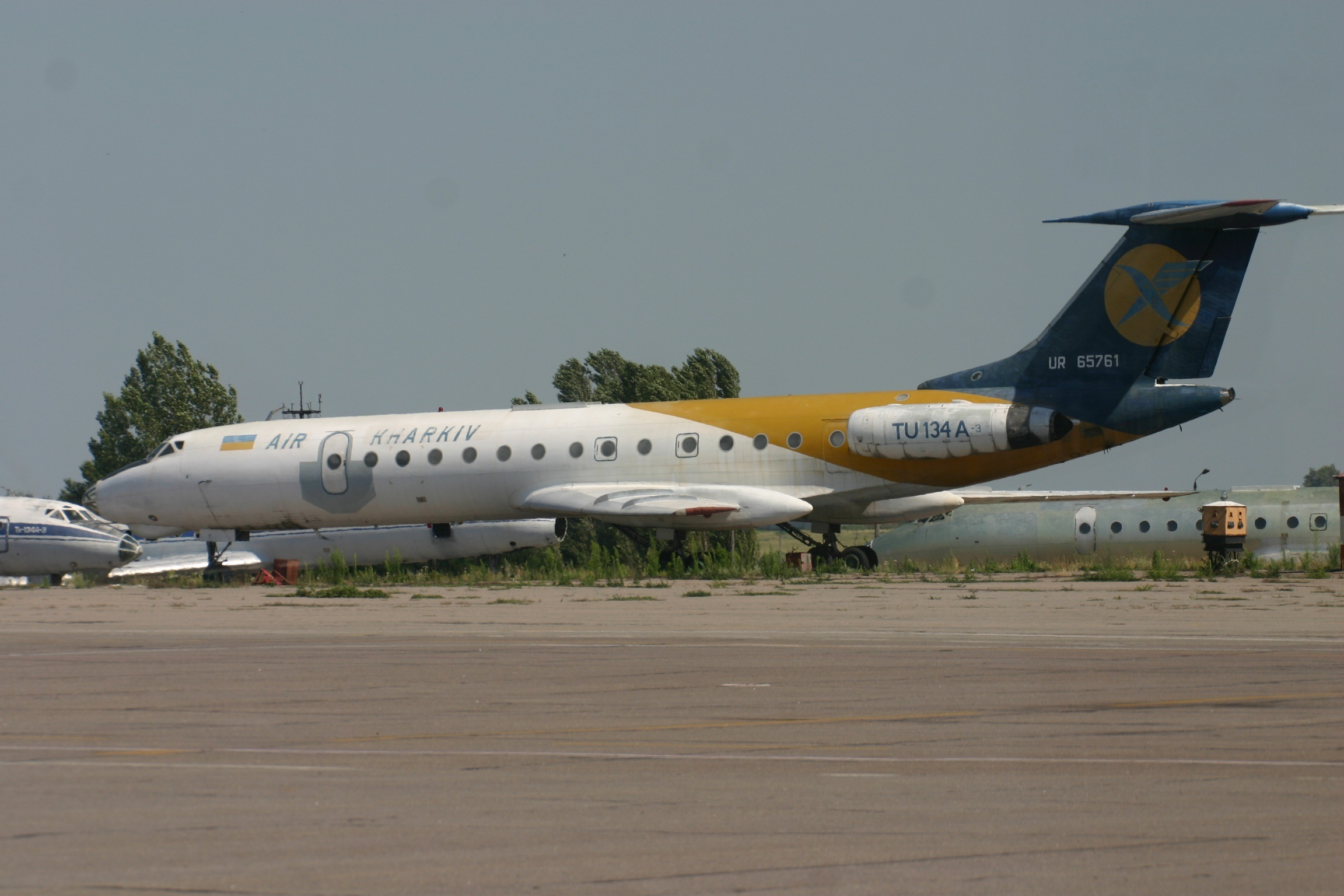 At Kharkiv International Airport